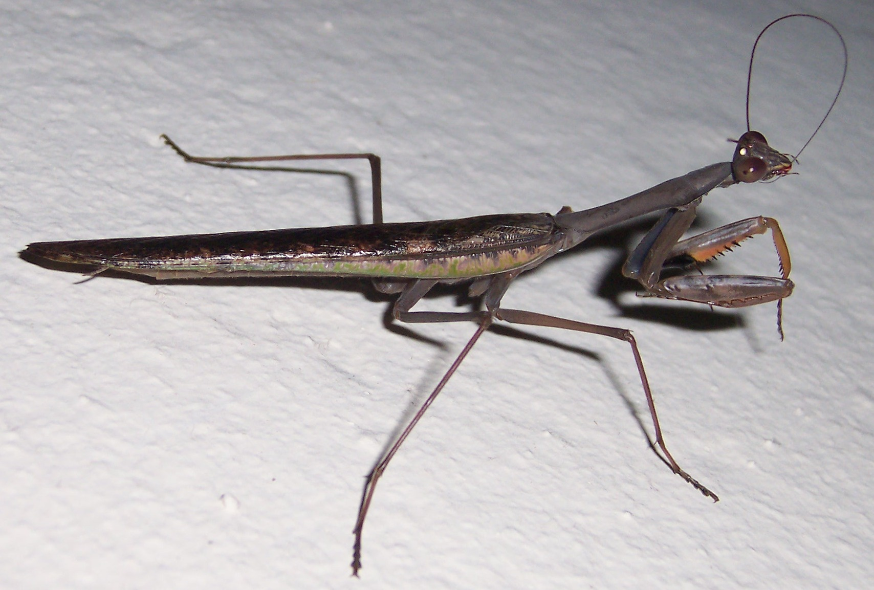 Praying mantis (species to be identified) tidying its antennae Photo: B.navez - 21 MAR 2006 - Réunion island it seems to be Paramantis prasina (it would be even better if some entomologist could confirm)B.navez 14:04, 9 April 2006 (UTC) It is a Polyspilota aeruginosa. on Réunion Island, there is only 2 species and Pramantis prasina dont show such habitus it has 3 to 5 withe spot on coxa, and one black line on femora foreleg. Bruno Meriguet